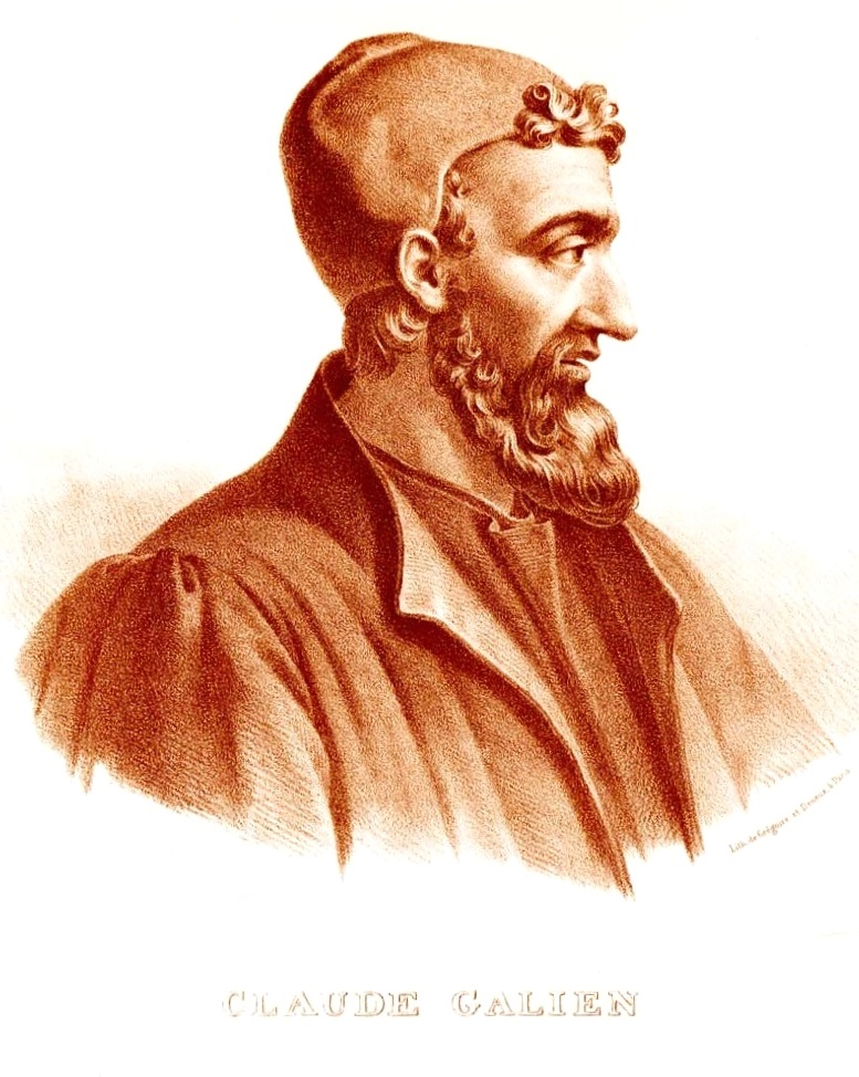 Galen of Pergamon (Claudius Galenus, or in French, Claude Galien), the most famous medical researcher of classical antiquity. Lithograph by Pierre Roche Vigneron. (Paris: Lithograph by Gregoire et Deneux, ca. 1865).